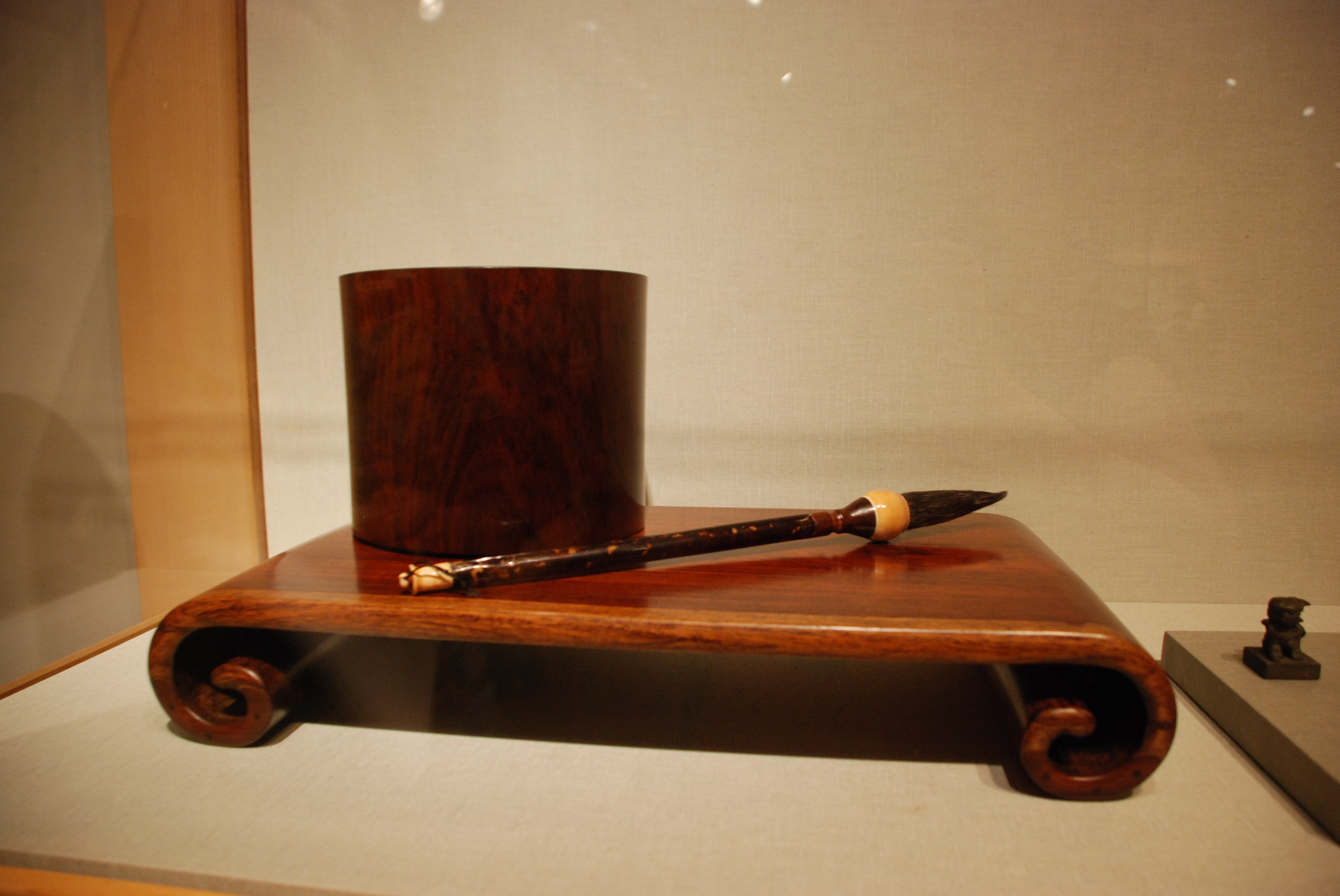 Scrolled Stand China, late Ming- early Qing dynasty. 17th-18th century Huanghuall wood Bequest of Frederic Mueller, 1990 (5981.1) Brush Holder (Bitong) China, Qing dynasty (1644-1911), 18th century Hongmu wood Bequest of Frederic Mueller, 1990 (5990.1) Ink Brush China, Modern era, 20th century Tortoise shell, animal hair Gift of Ernest and Letah Lee, in memory of Tai Moi Chun Lee on the occasion of the Academy's 75th Anniversary, 2002 (12,009.1) Wikipedia Loves Art at the Honolulu Academy of Arts This photo of item # 5990.1 at the Honolulu Academy of Arts was contributed under the team name "Team_Yatta" as part of the Wikipedia Loves Art project in February 2009. Honolulu Academy of Arts The original photograph on Flickr was taken by keska86—please add a comment to the original Flickr page whenever a use has been made on Wikipedia or another project. Project galleries on Flickr: this institution, this team